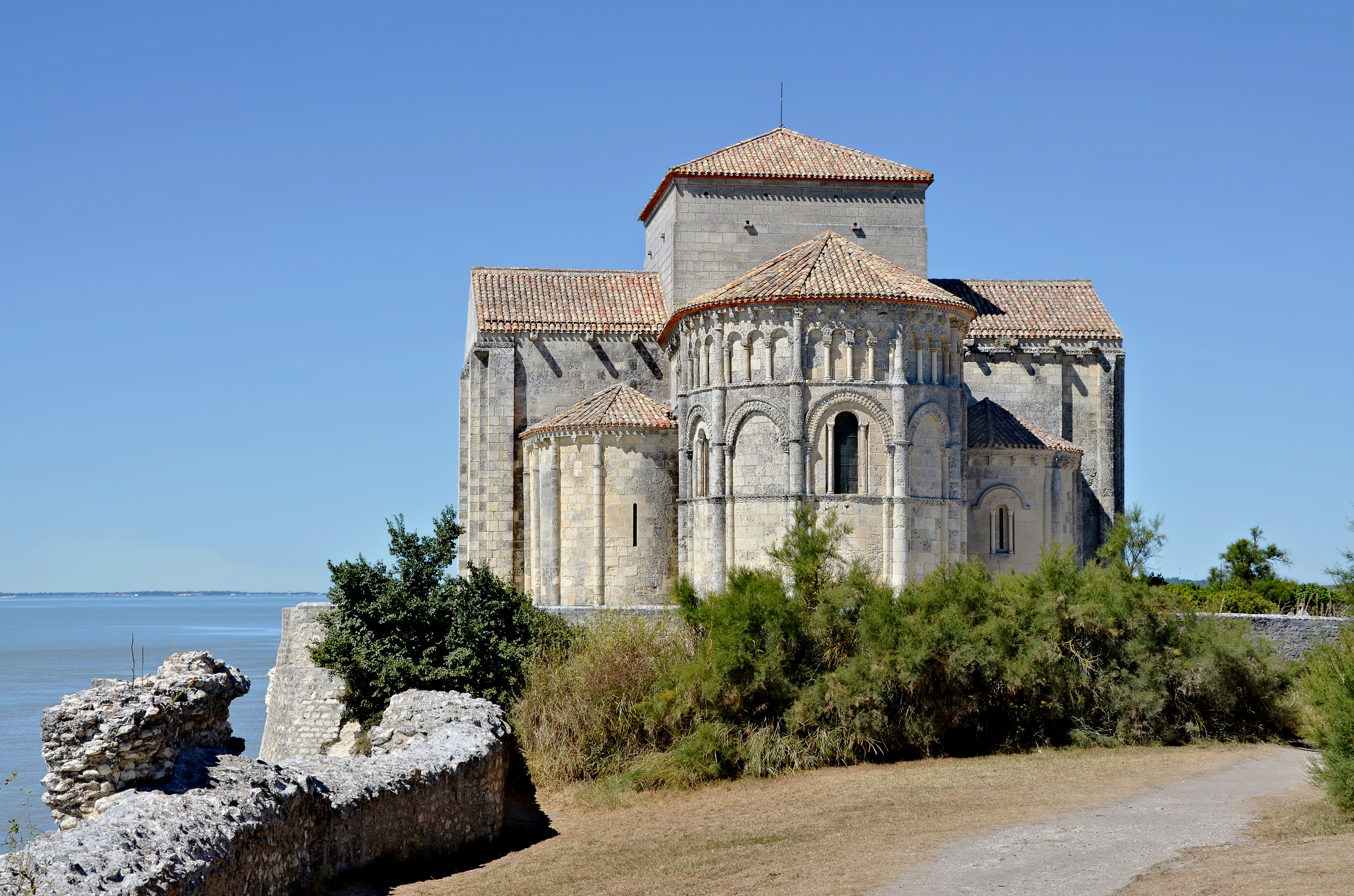 Apse of the fortified church (11th, 12th and 16th century) as seen from east, Talmont-sur-Gironde, Charente-Maritime, France. .